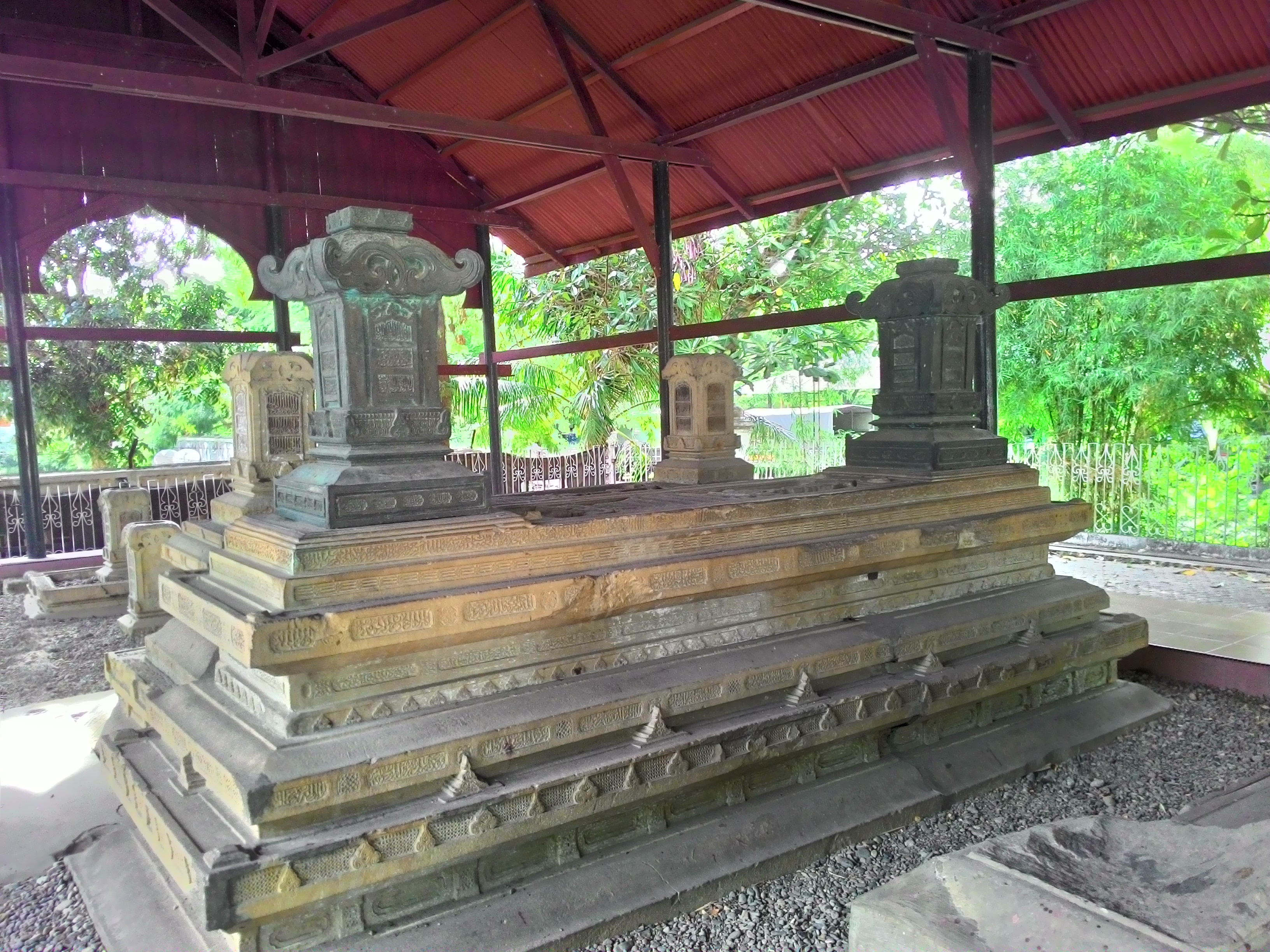 Tomb of Sultan Al-Qahhar from Aceh